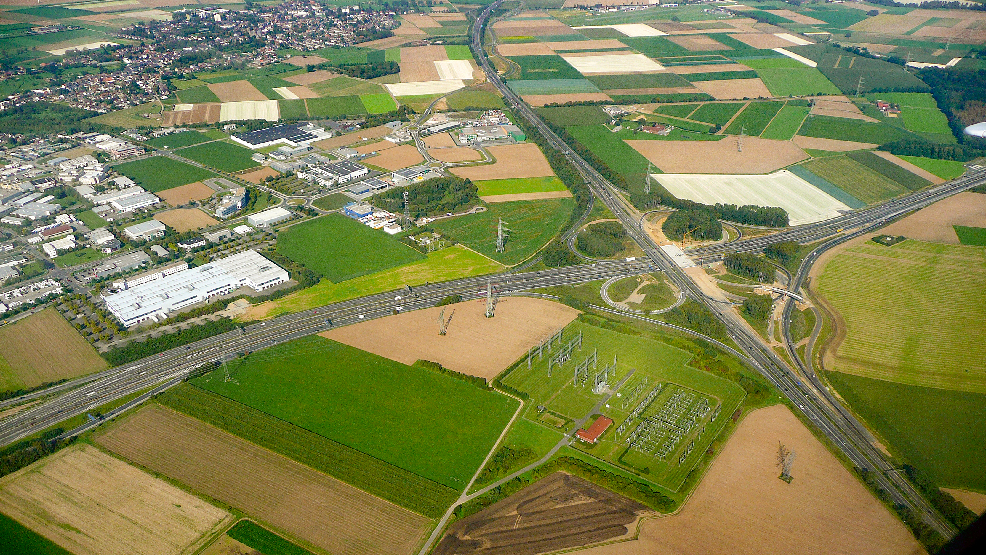 aerial photo of interchange Aachen during works in September, 2011; Verlautenheide substation at the bottom